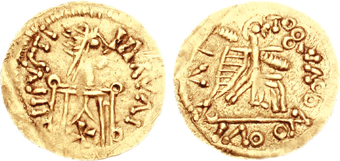 Visigoths, Spain. Liuvigild (Leovigild) (?). AD 568-586. AV Tremissis (1.39 g, 6h). Struck circa AD 580-583. Diademed and draped bust right; cross with swag at top on drapery Victory advancing right, holding palm and wreath, crescent on exergual line; ILOON. Tomasini, Group JII5, 513-514; Chaves -; cf. MEC 1, 209. VF.